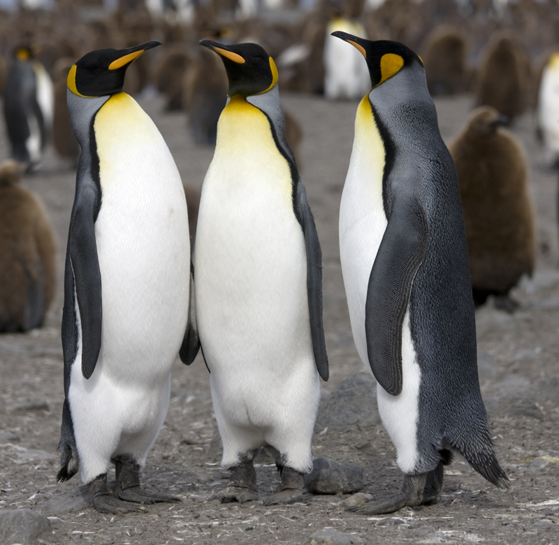 King Penguin (Aptenodytes patagonicus) in South Georgia